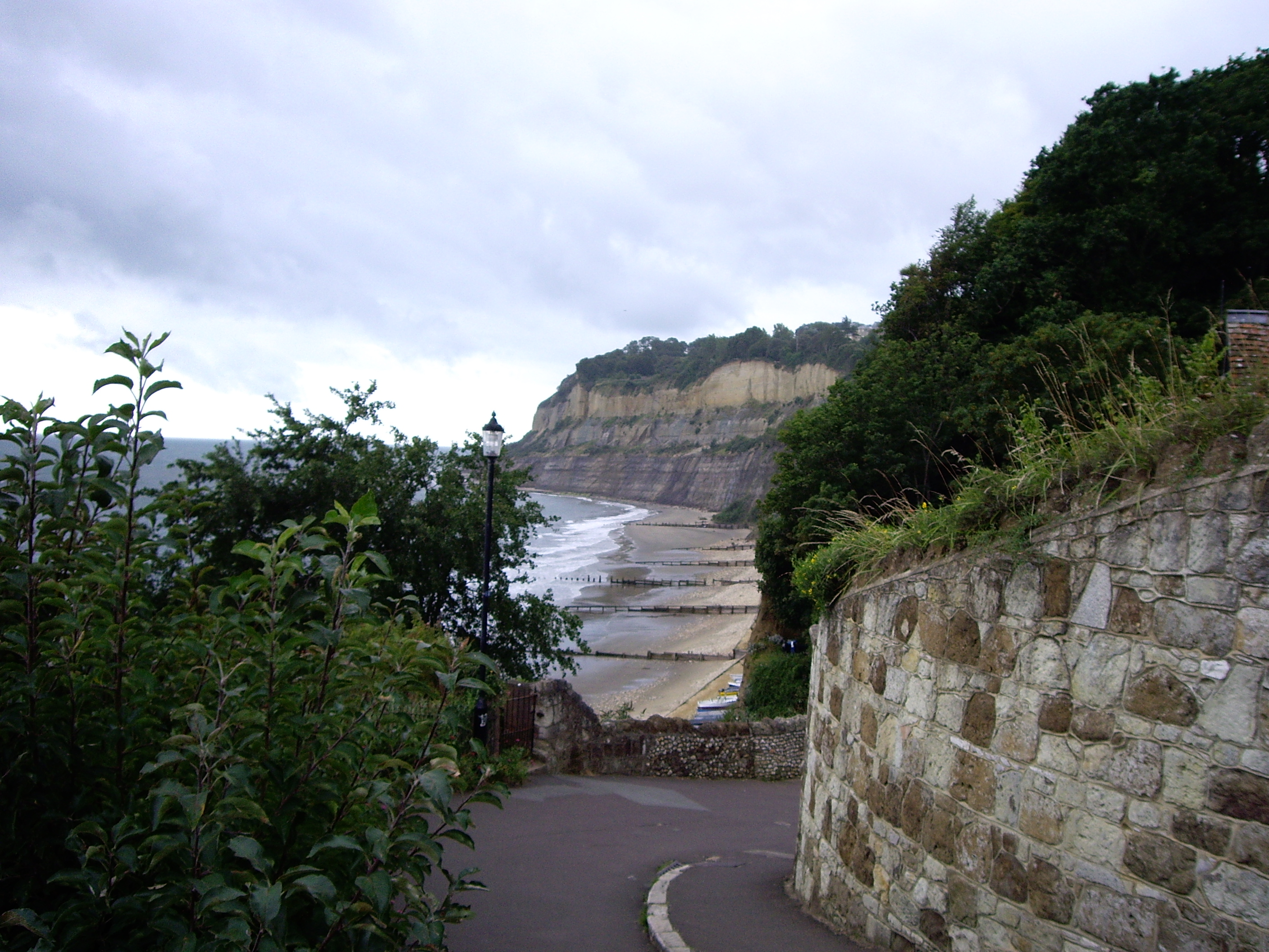 Looking west from the south eastern edge of Shanklin Chine in August 2007